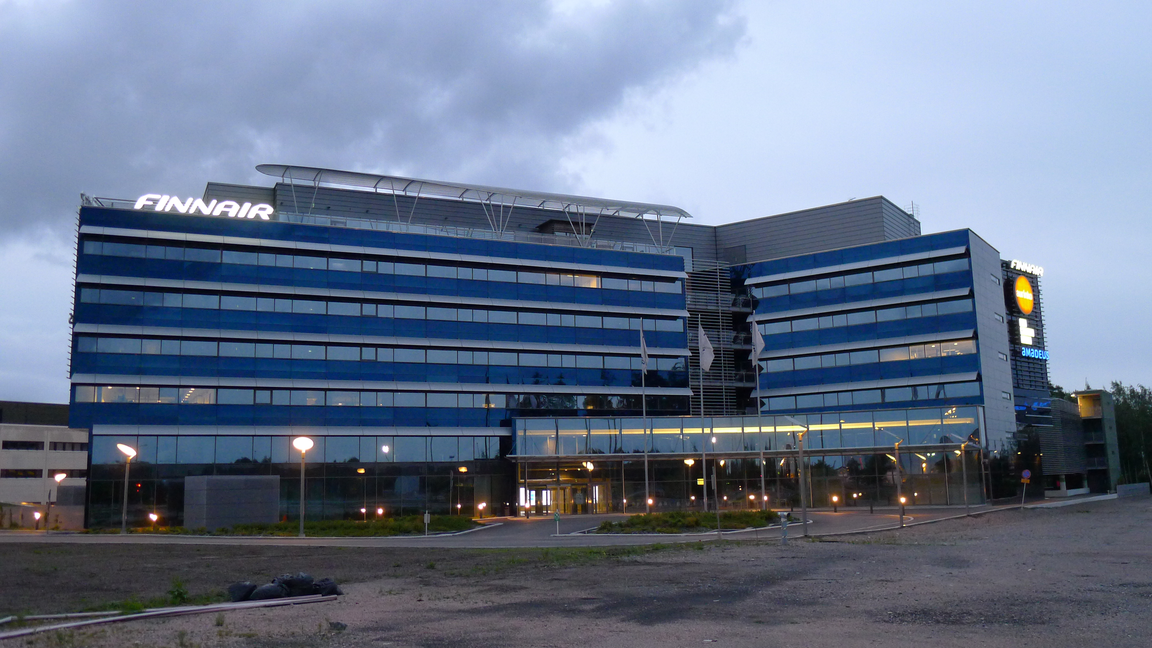 Finnair headquarters